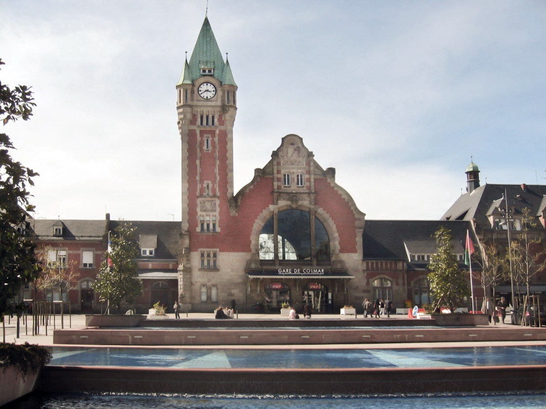 Train station on 9 place de la Gare in Colmar (Haut-Rhin, France). .